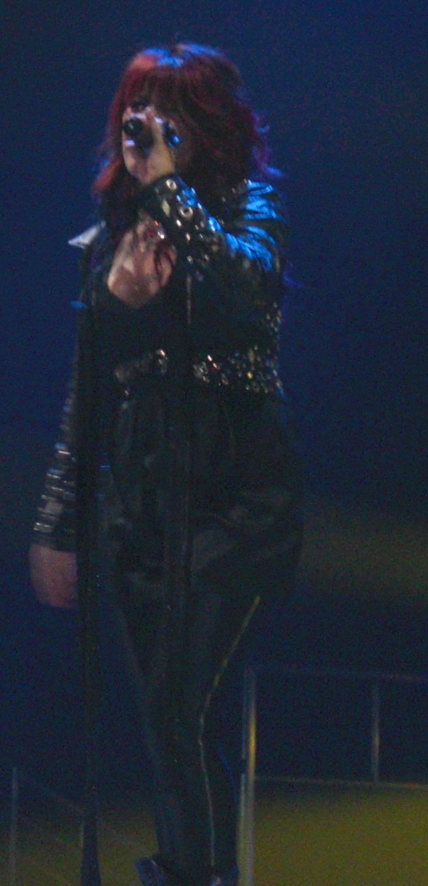 Allison Iraheta performing in Oakland, CA.